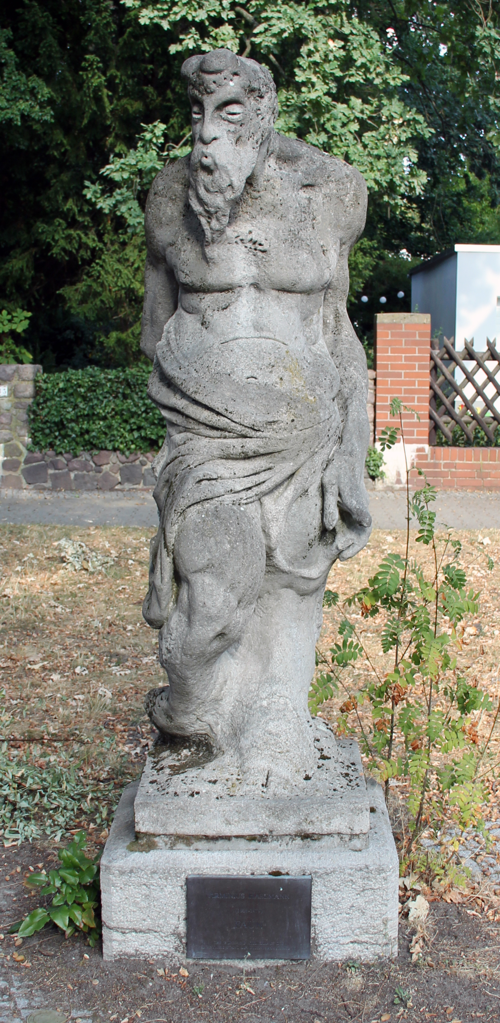 Sculpture, "Faun" by Arminius Hasemann, Leuchtenburgstraße 35, Berlin-Zehlendorf, Germany